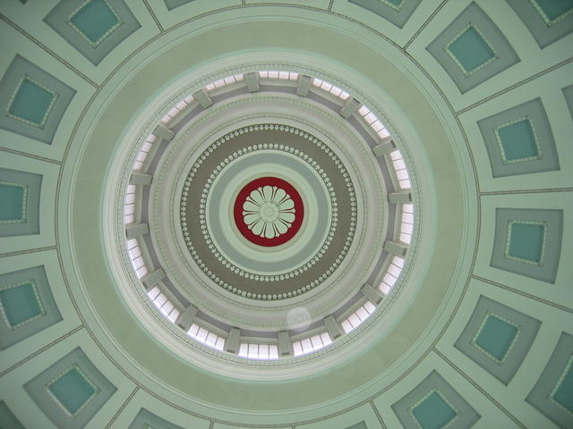 Montpellier Spa Rotunda Looking vertically up inside the beautifully restored rotunda of 288702.